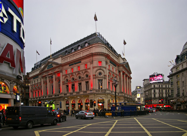 Trocadero Centre, London W1 The lighting of the Trocadero Centre is constantly changing between blue, green and red.